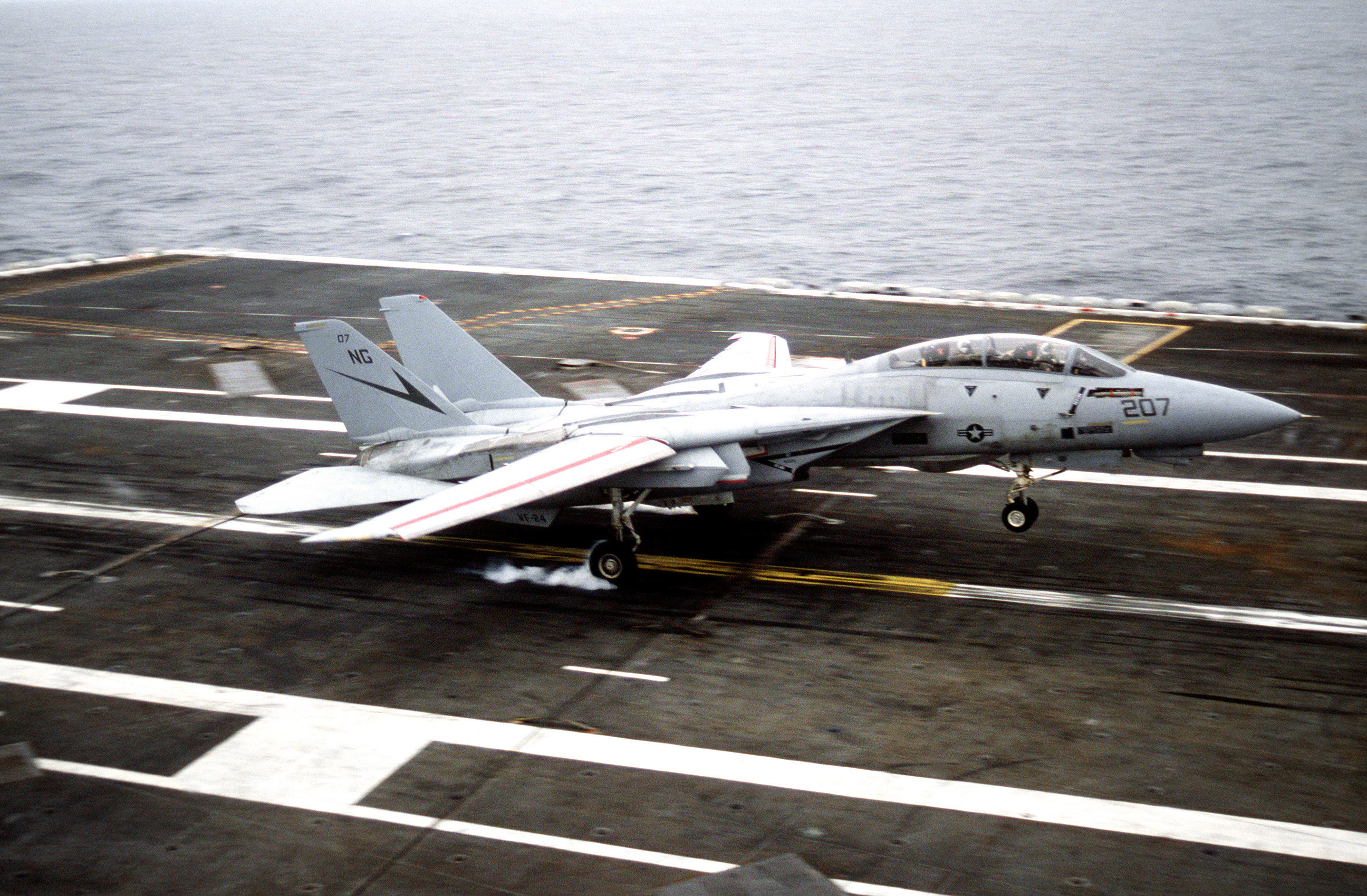 A U.S. Navy Grumman F-14A Tomcat aircraft from Fighter Squadron 24 (VF-24) Fighting Renegades is landing on the flight deck of the nuclear-powered aircraft carrier USS Nimitz (CVN-68) on 15 June 1992.